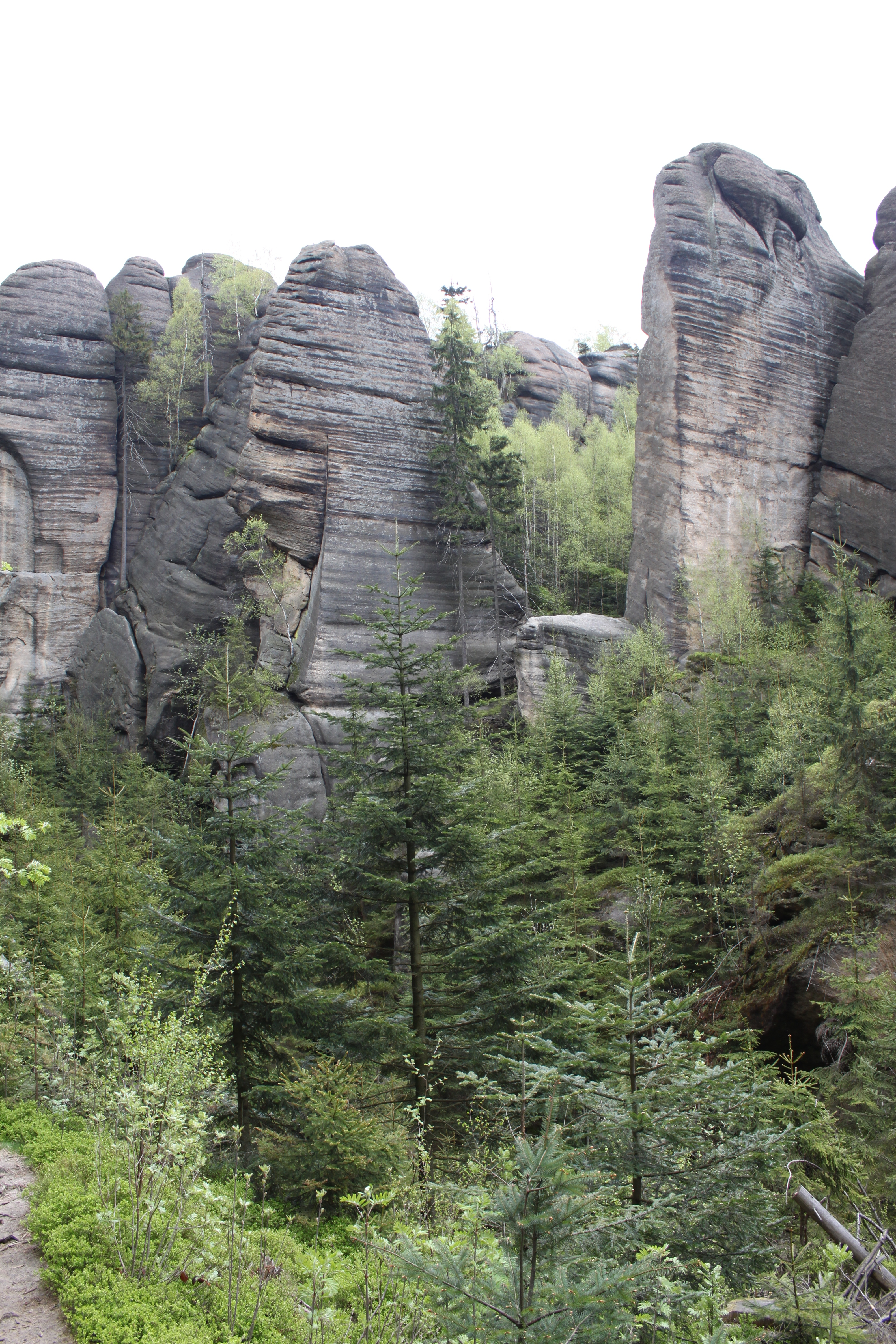 Kovářova rokle, Broumovské stěny, Czech Republic